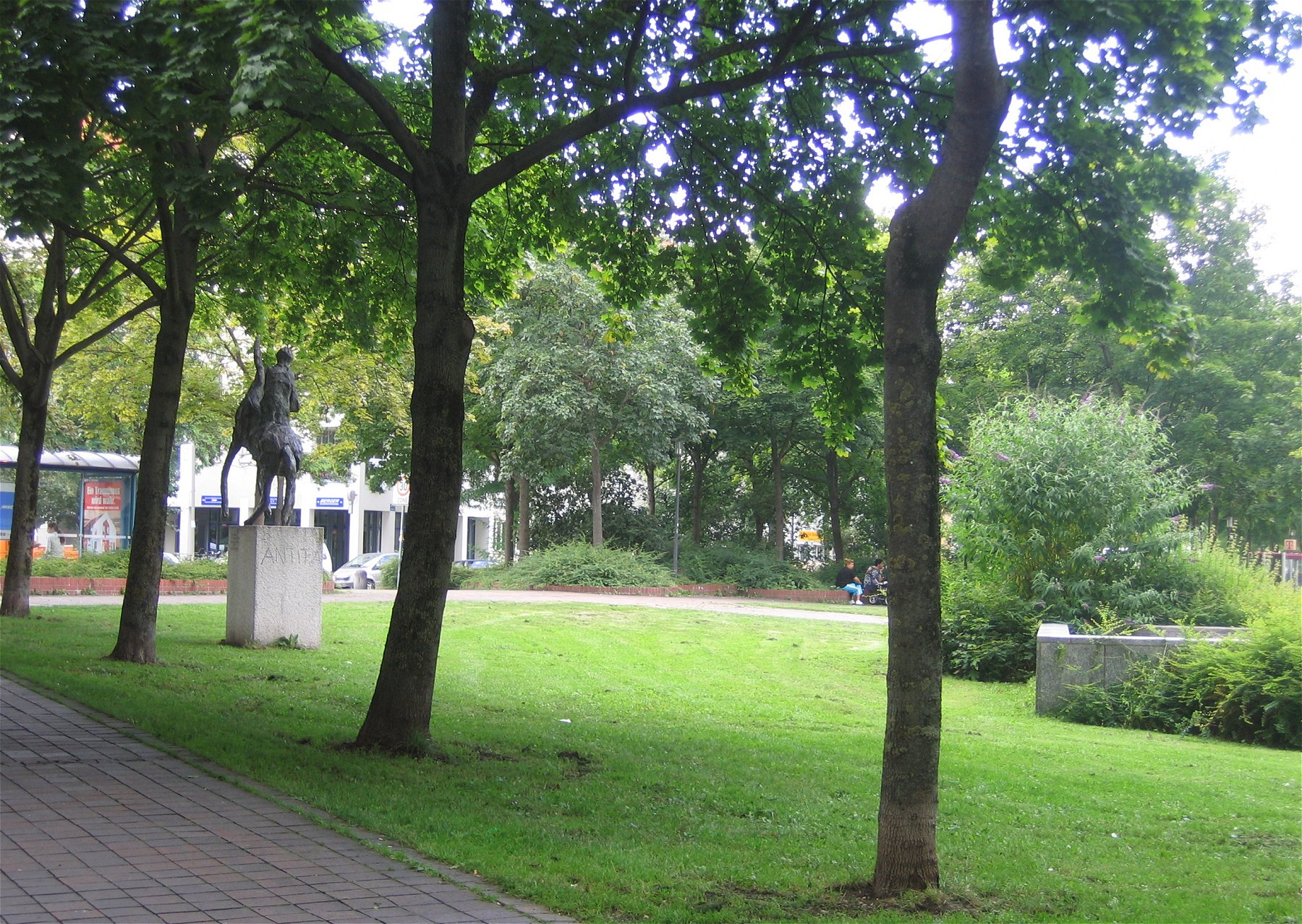 Heimeranplatz, Munich